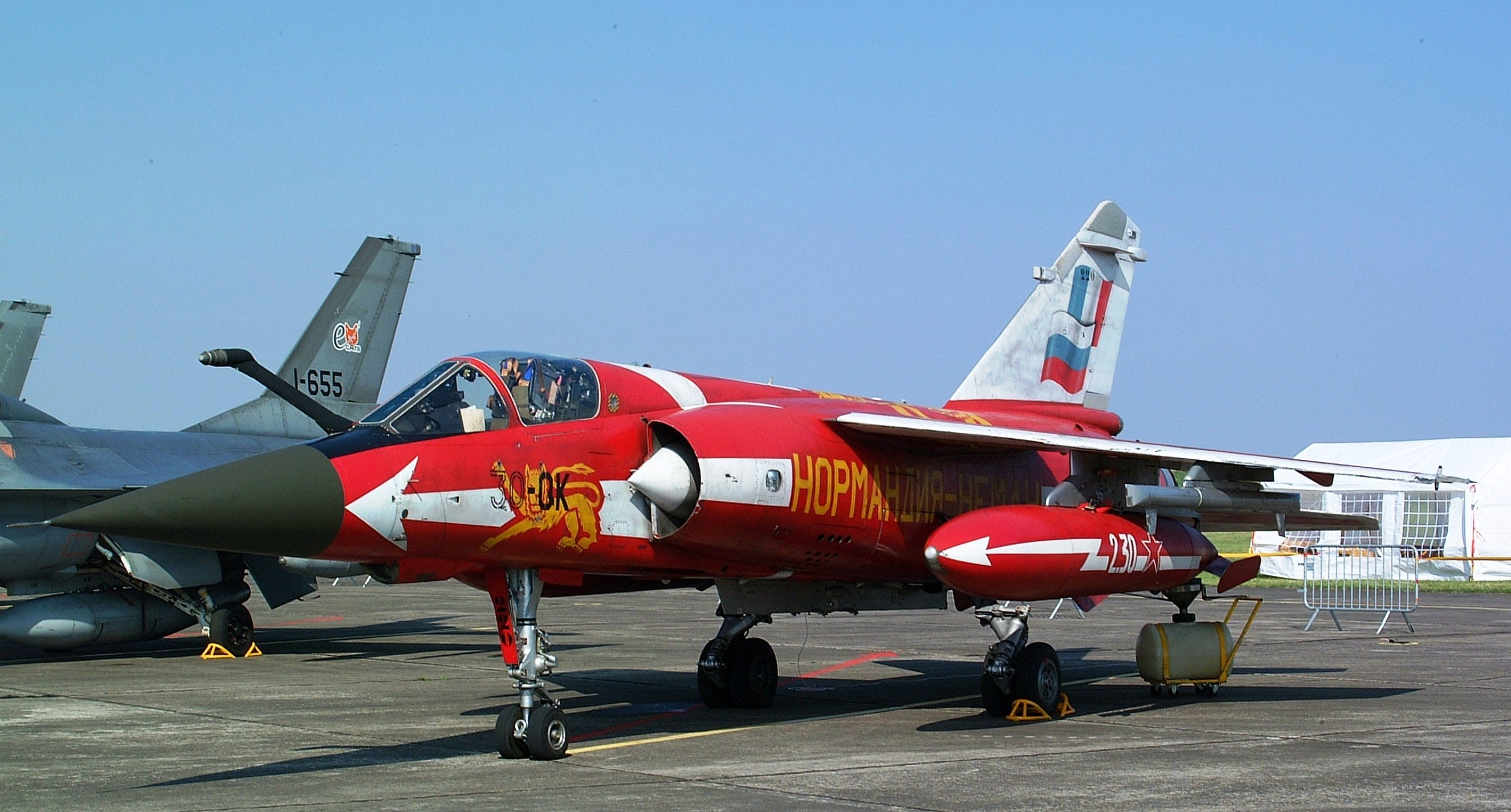 The colour scheme commemorates the links between the squadron and the former Soviet Air Force. Cognac Chateaubernard airshow 2004.